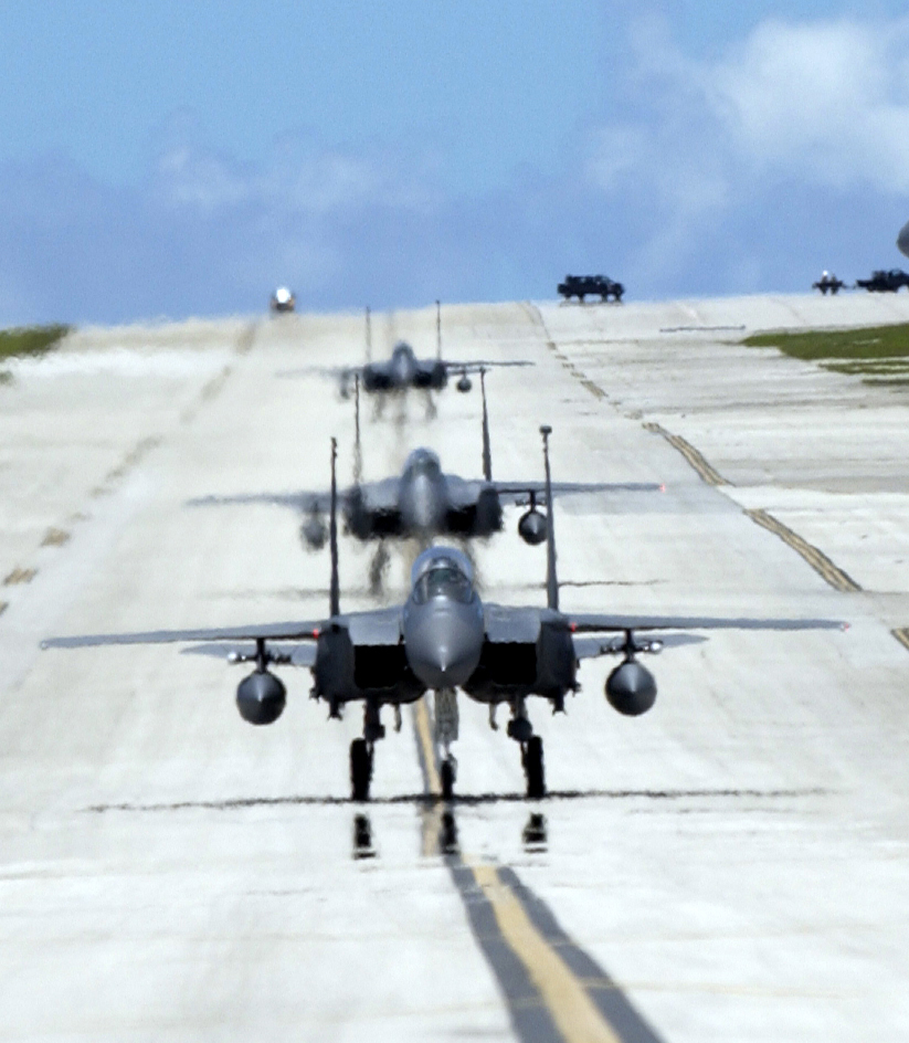 Images from Valiant Shield - public domain as original creations of the United States government. Uploaded by Johntex ANDERSEN AIR FORCE BASE, Guam -- F-15E Strike Eagles from the 90th Expeditionary Fighter Squadron taxi to their parking spots on Andersen Air Force Base, Guam. Deployed from Elmendorf Air Force Base, Alaska, the 90th EFS is participating in exercise Valiant Shield 2006. Valiant Shield begins June 19 and lasts through June 23, and will be conducted in the vicinity of Guam. Valiant Shield focuses on integrated joint training among US military forces. (U.S. Air Force photo by Airman 1st Class Michael Dorus) F-15 Eagle, Valiant Shield, Guam